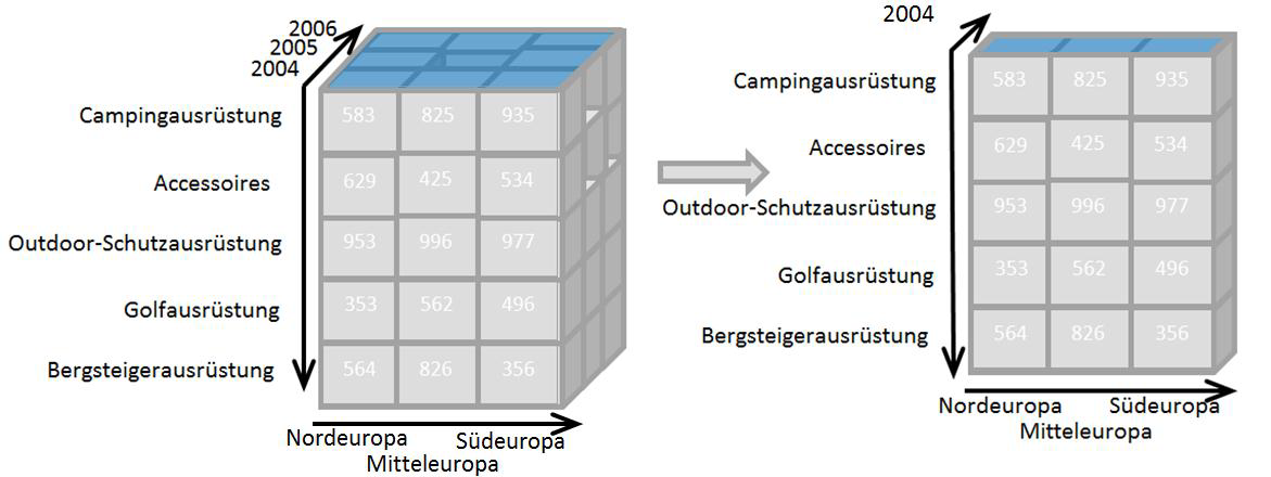 Online Analytical Processing (OLAP) Operation called "slicing"